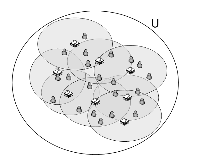 Facility Location, an example Set Cover Problem: how many facilities are needed to cover all demands?